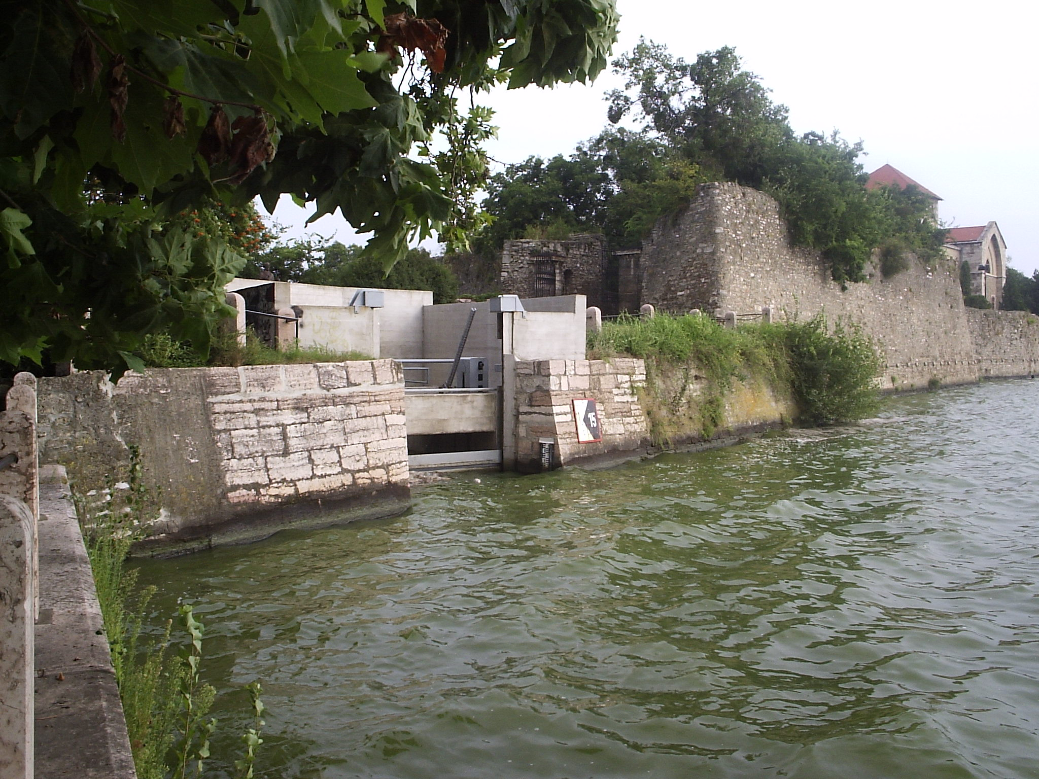 Sluice gate "Vecseri" in Old Lake (Öreg-tó), Tata, Hungary Photo: József Süveg (2005)